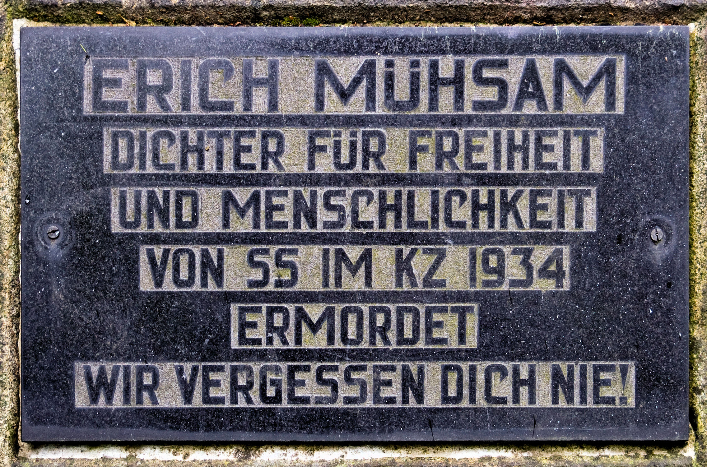 Memorial plaque, Erich Mühsam, Dörchläuchtingstraße 50, Berlin-Britz, Germany Koordinate:52°26′47″N 13°26′50″E / 52.44639°N 13.44722°E